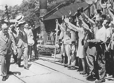 Emperor Showa's visit to Joban Coalfield in 1947